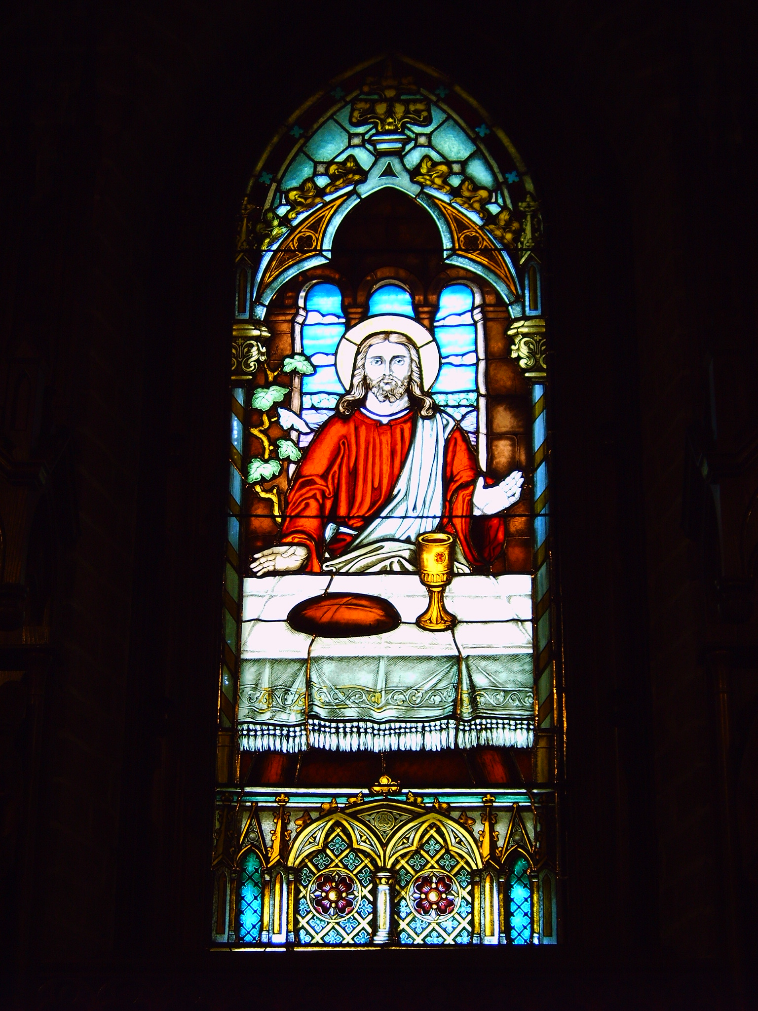 Poland, Mielno, church, stained glass - Eucharist